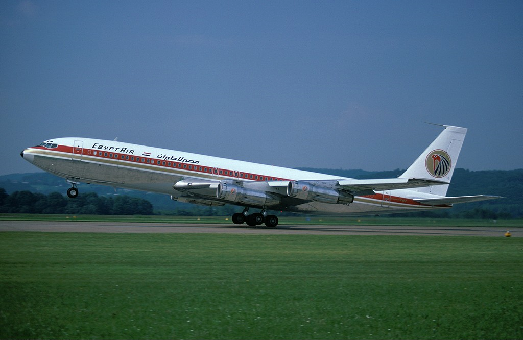 An EgyptAir Boeing 707-366C at Zurich Airport (ZRH / LSZH)